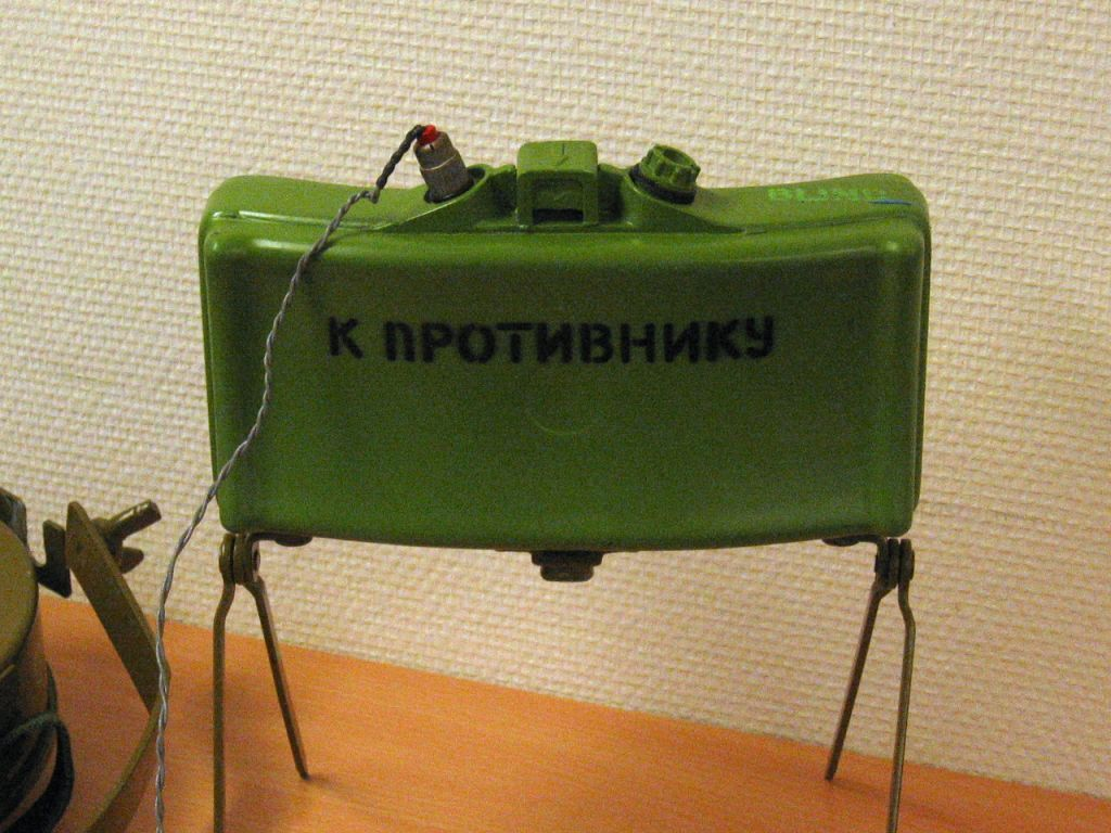 A soviet MON-50 claymore mine.